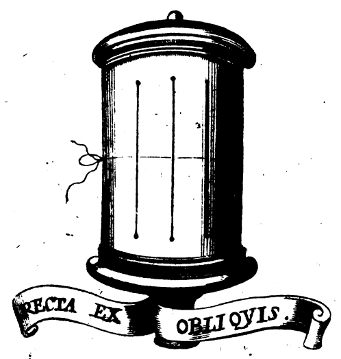 Images retailed from Muzio Oddi (1569-1639), Dello squadro, Milan 1625